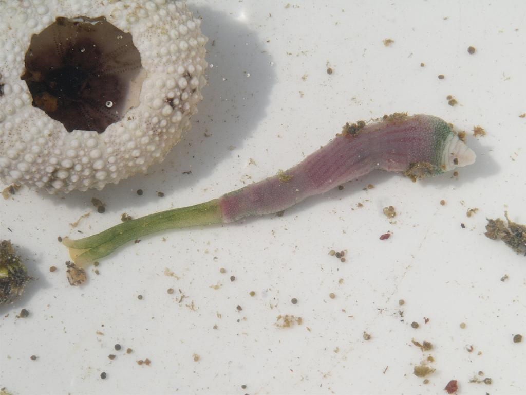 Ochetostoma erythrogrammon Japanese name:Sujiyumusi：スジユムシ Date;2009,10.04;Tanabe City, Wakayama prefecture, Japan Author;Keisotyo